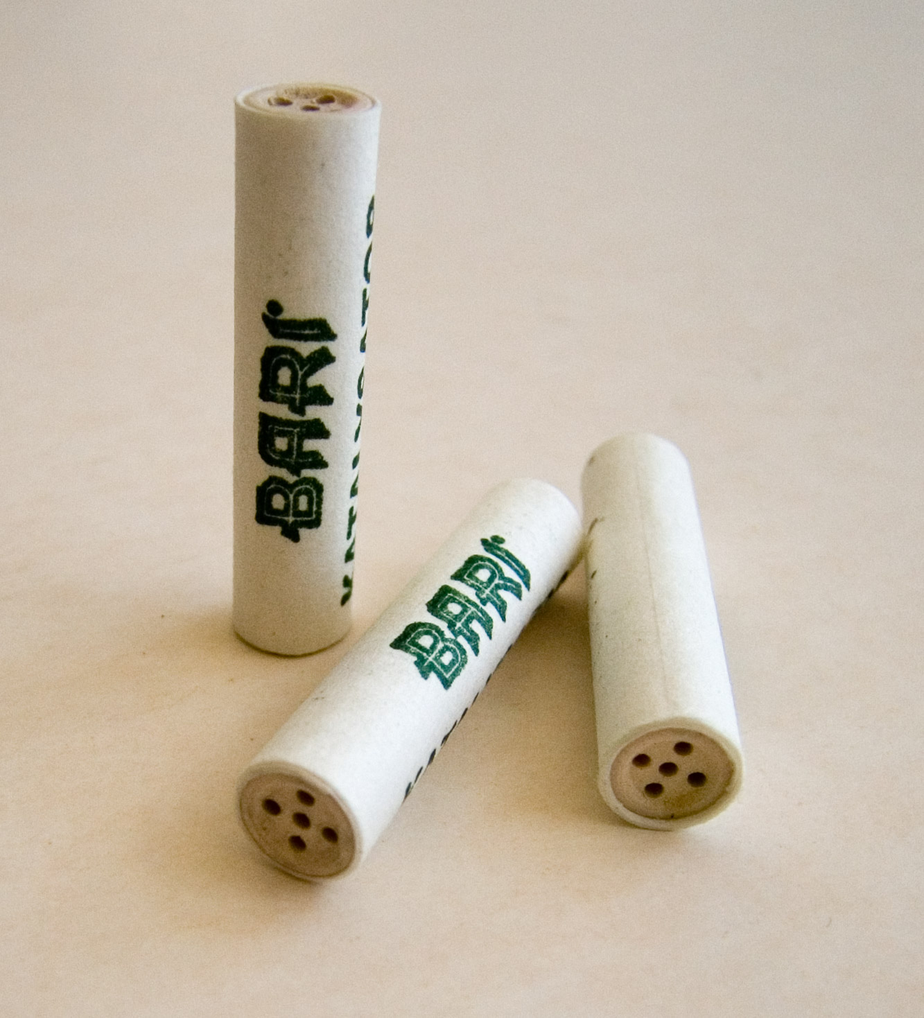 Pipe filter